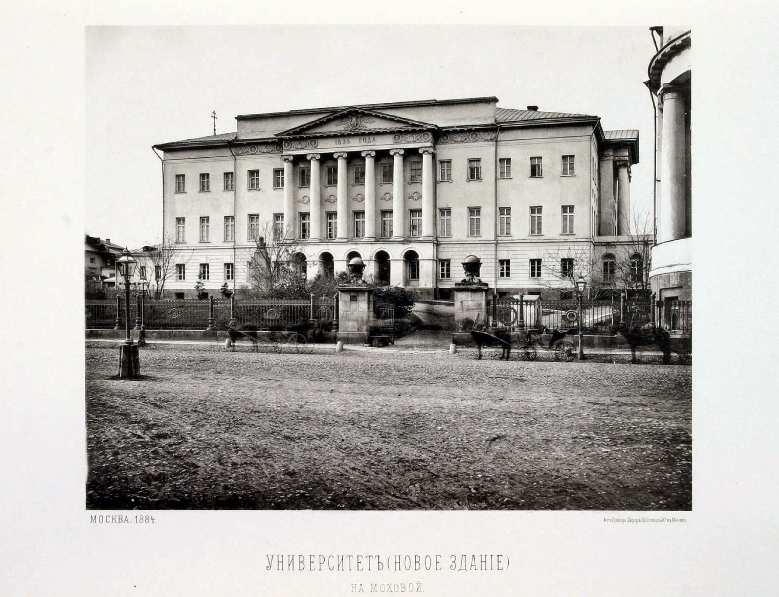 Plate 63: The University, new building, Moscow.